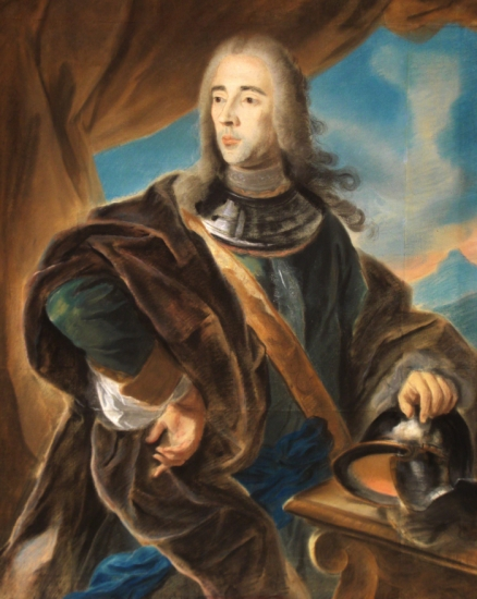 Portrait of Rodolfo Emilio Brignole Sale, Doge of the Republic of Genoa.